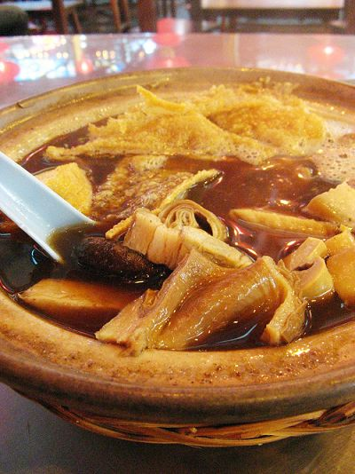 A soup cooked with herbs,and pork.